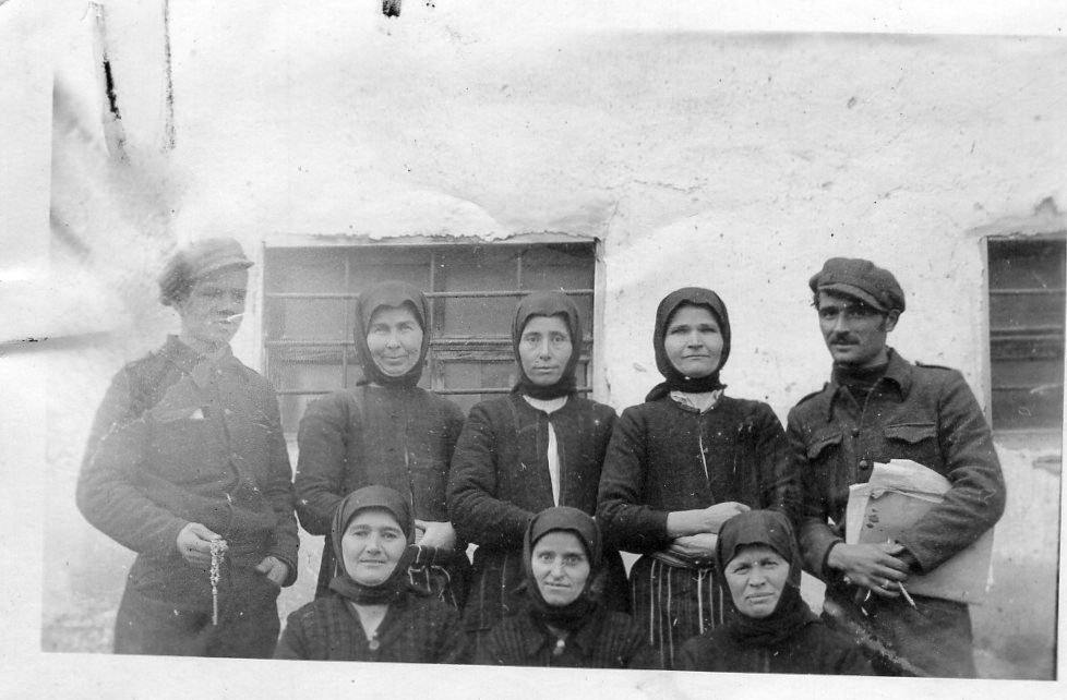 A village committee of the Anti-Fascist Organization of Women, Cer, Kichevo, Macedonia, 30 November 1945. This media file is produced by Wikipedian in Residence in Category:Wikipedian in Residence at DARM in 2017.